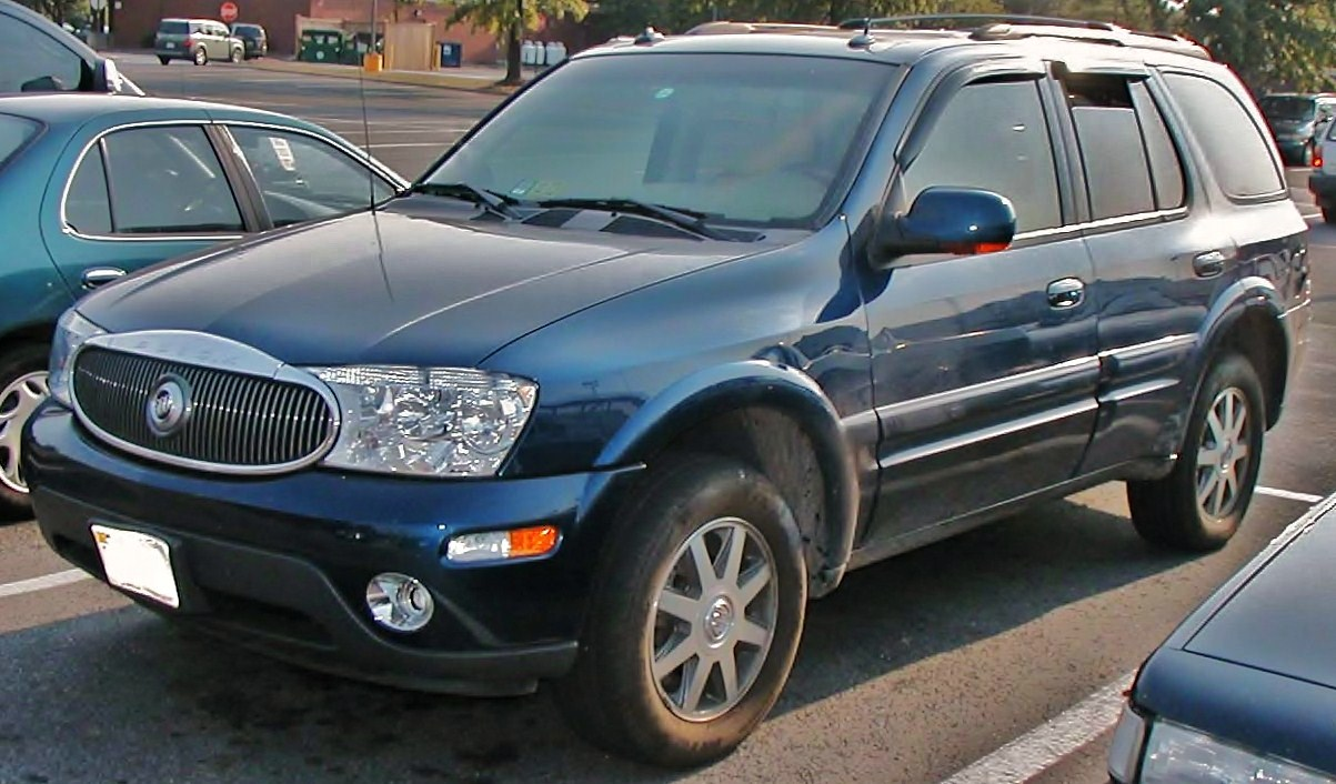 2004-2007 Buick Ranier photographed in USA.